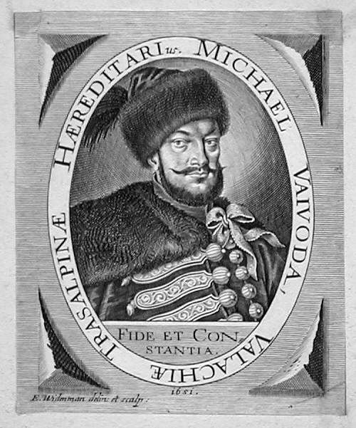 Michael Vaivoda copper engraving by Elias Widemann